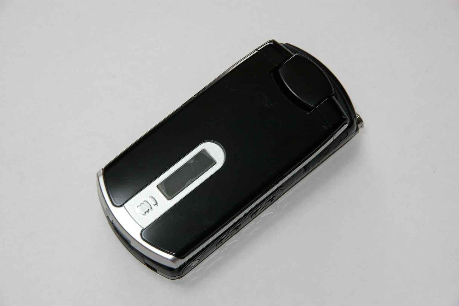 Panasonic P901iTV close style.